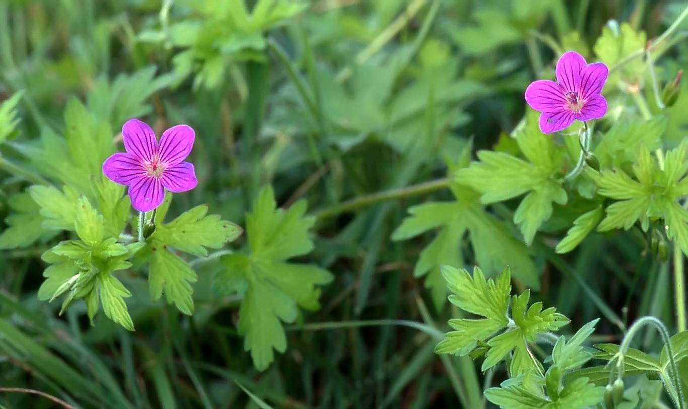 Flowering Geranium palustre.